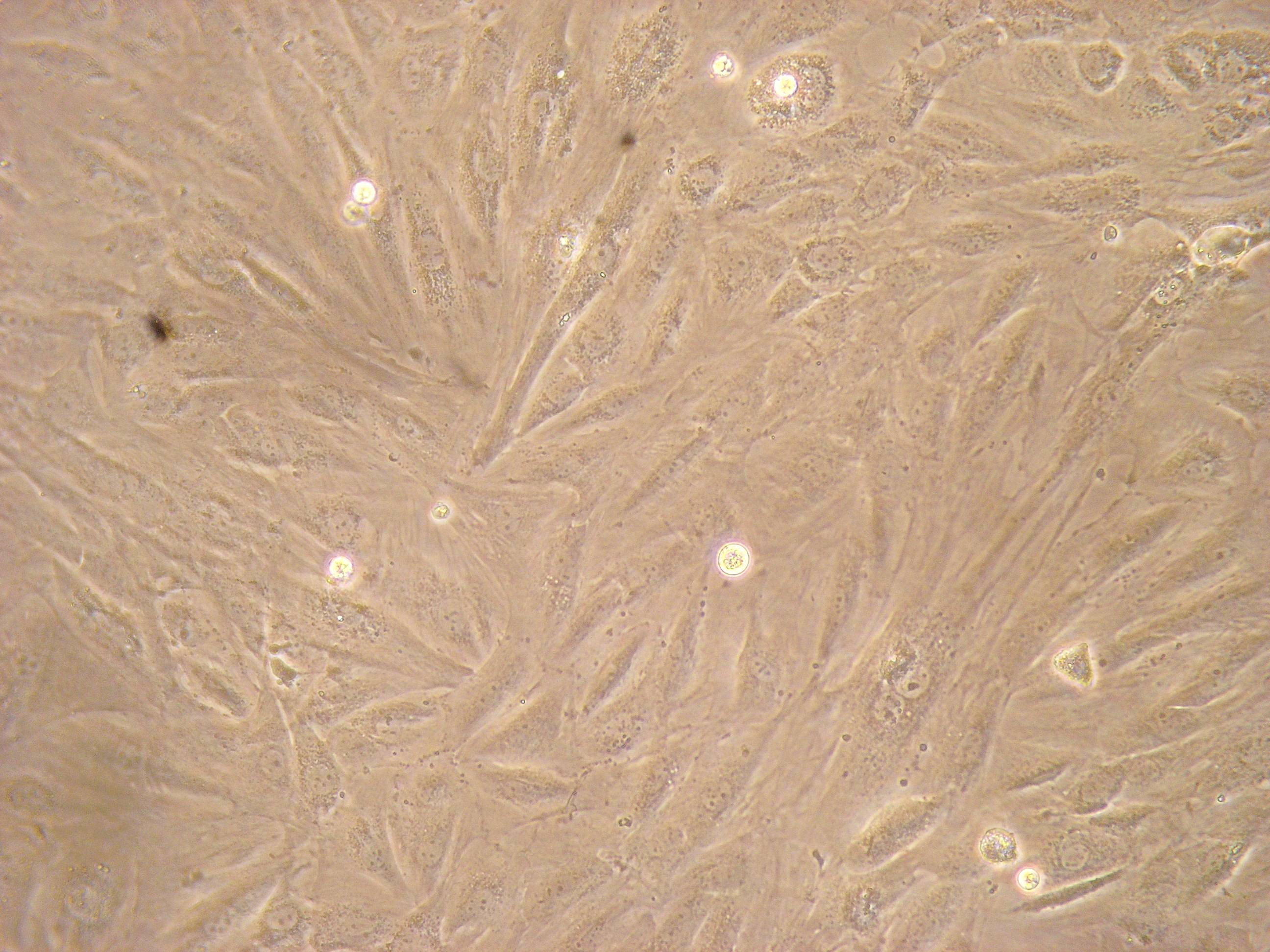 H9c2 200X field high cell dinsity